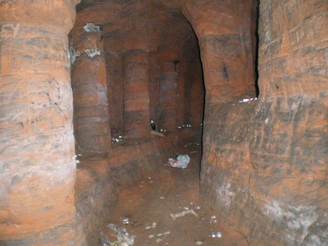 Underground in the Caynton Hall grotto. Looking along one of the passageways in the grotto. Litter abounds on the floor, presumably the detritus of parties by local youngsters.